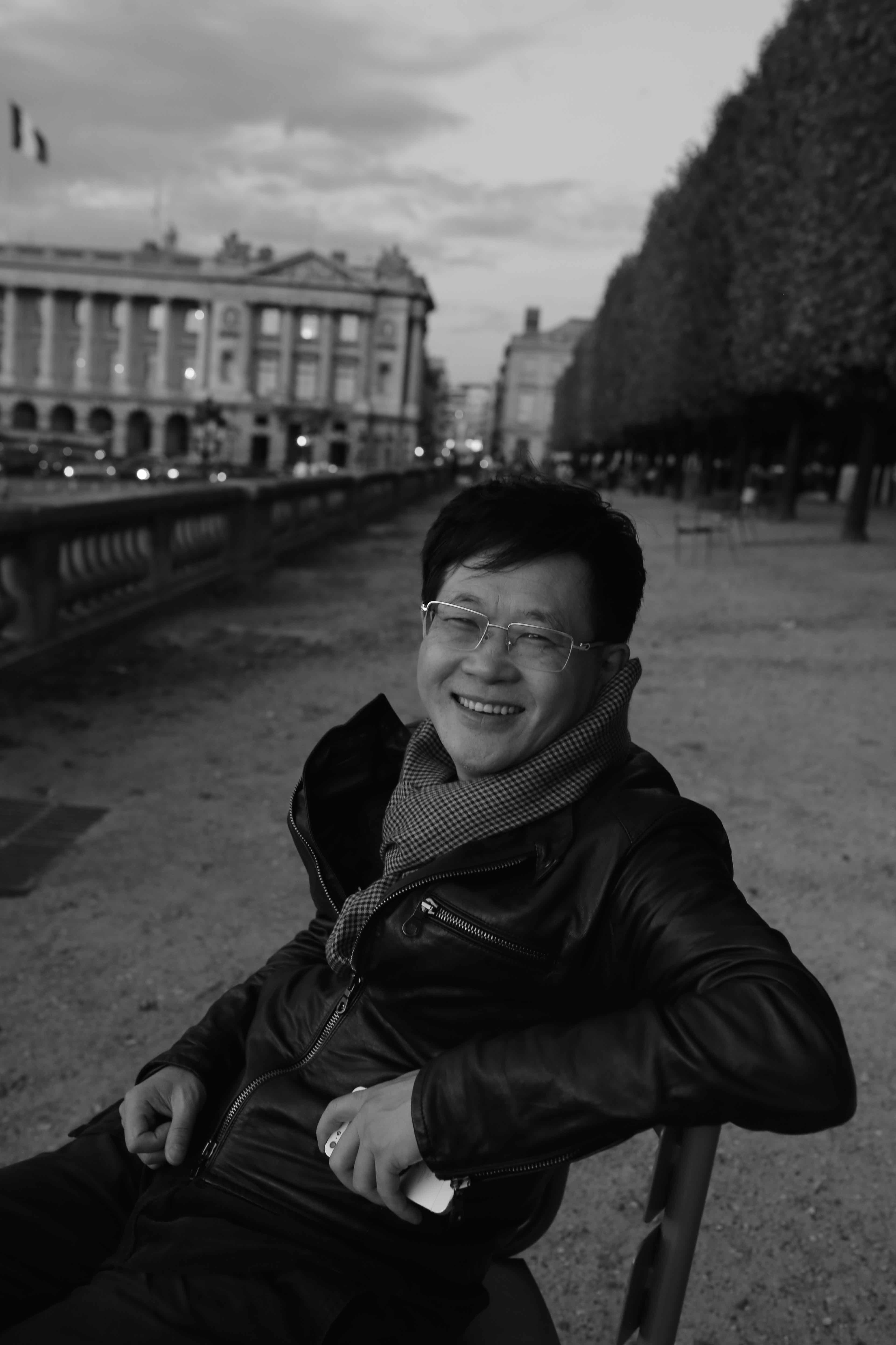 Portrait of Lu Peng, 2014